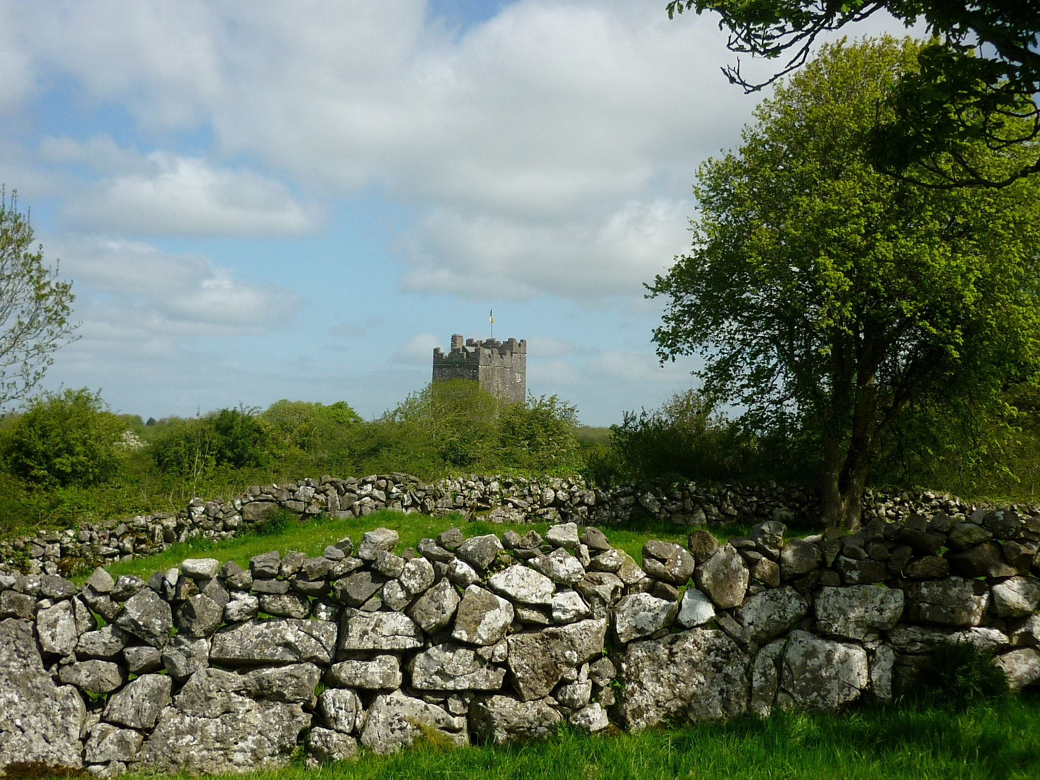 Dysert O'Dea Castle